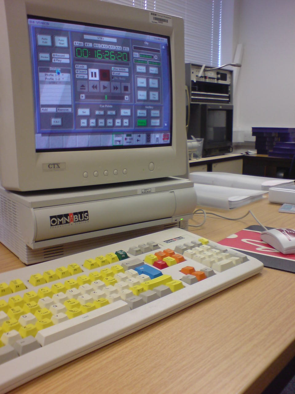 An Acorn RiscPC computer, customised by OmniBus Systems Ltd, and running their OUI software. This will control a video playout server, for use in automated television playout environments. This photo was taken in a training centre, rather than in a live working control room.